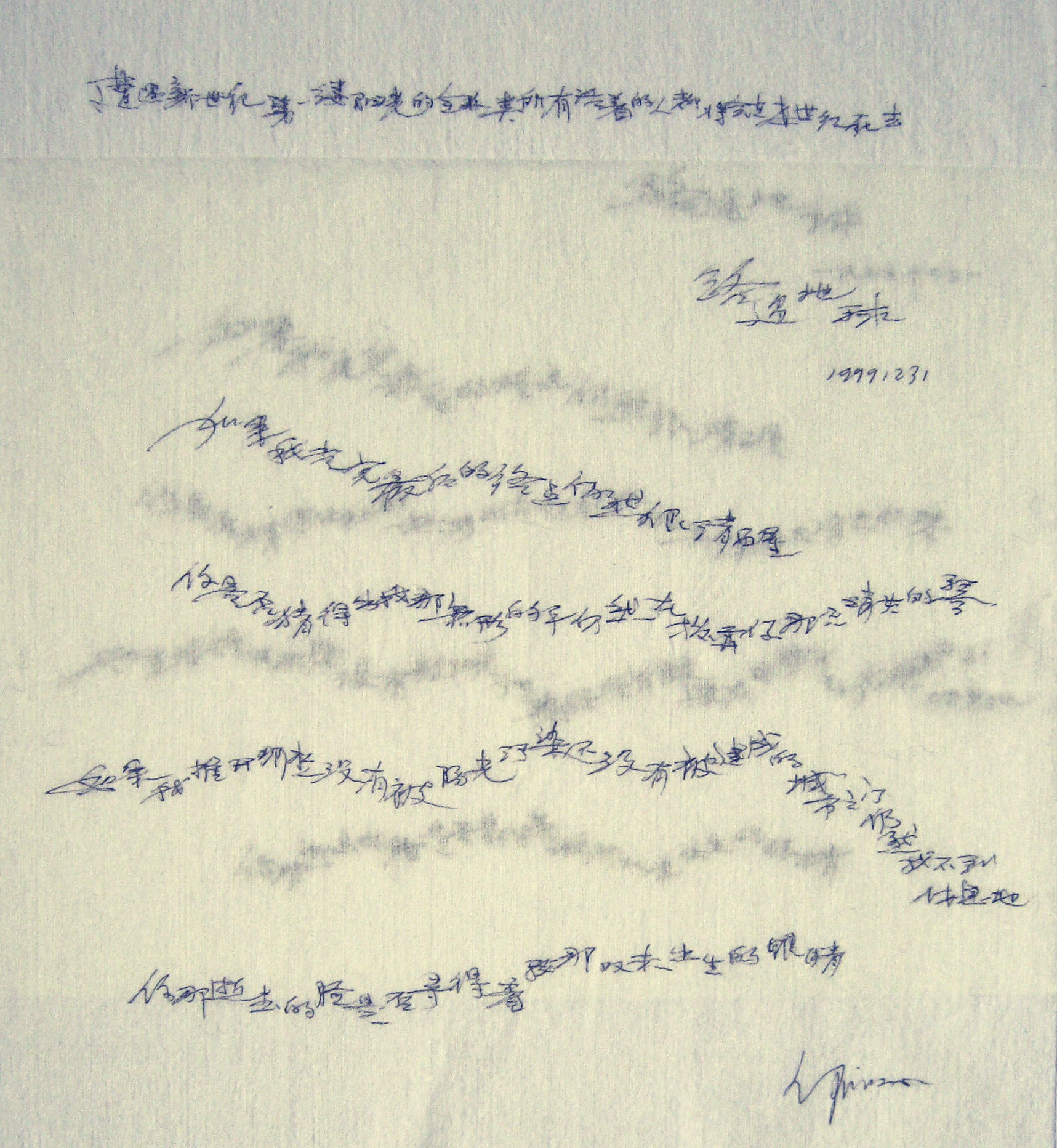 Passing By the Earth, He Xuntian's handwriting (1999)